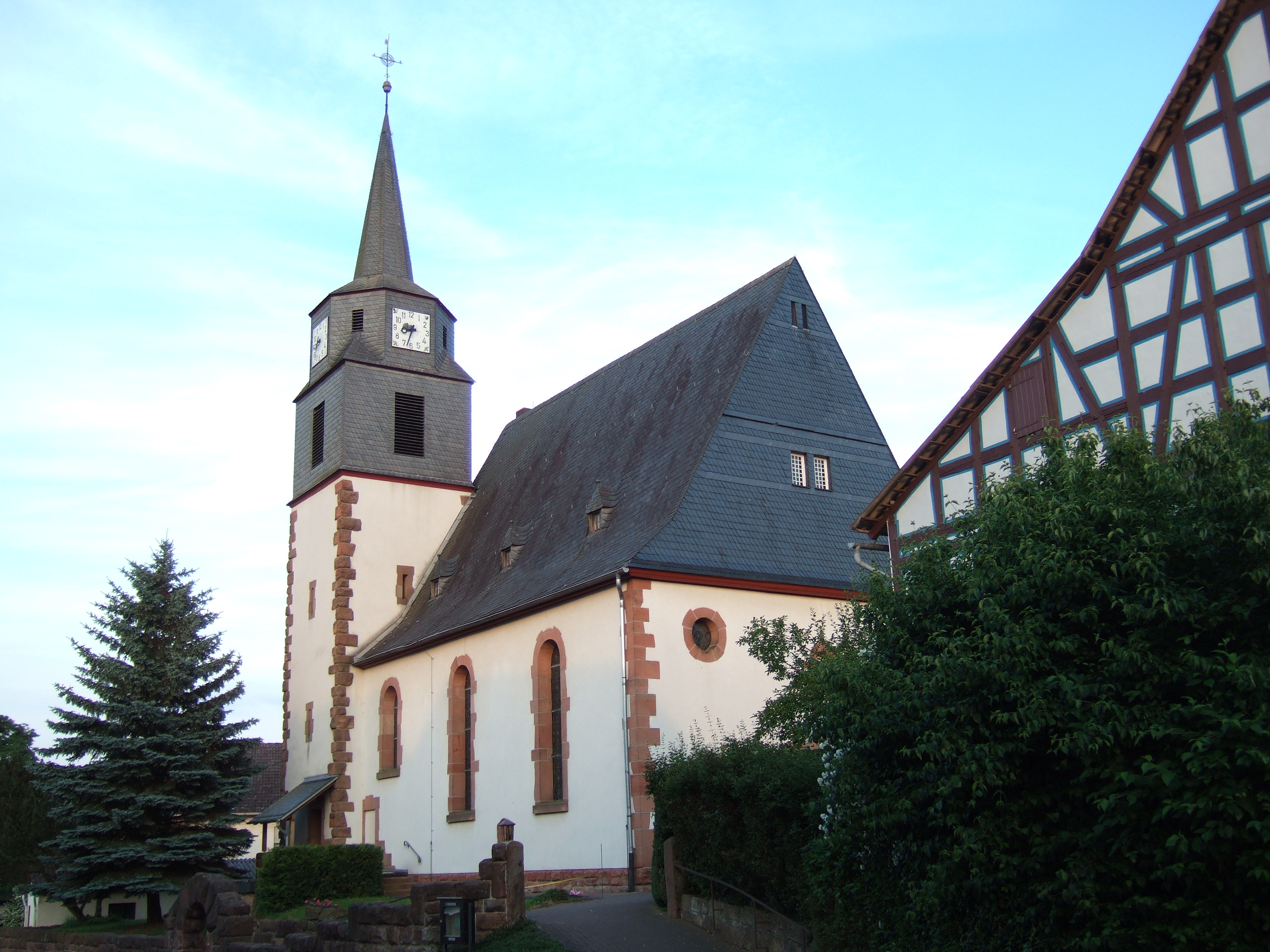 Protestant Church built in 1912 in Burgwald-Ernsthausen, Germany